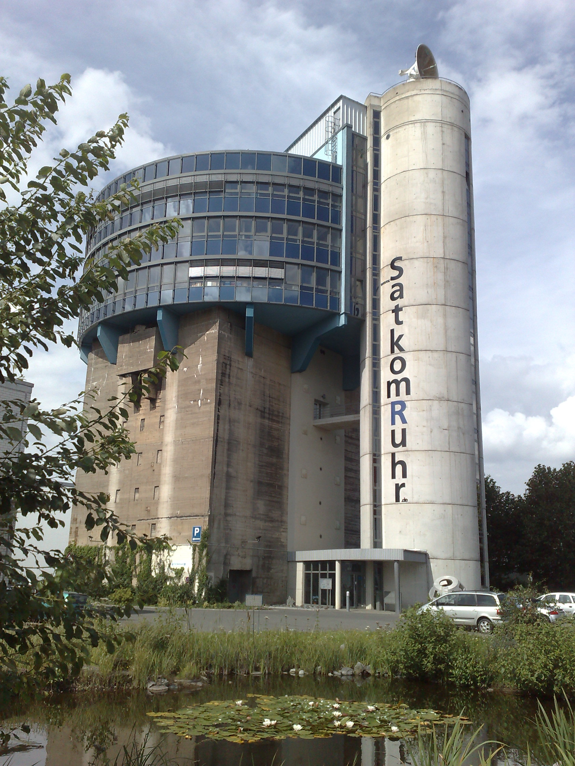 SatKom Ruhr Tower Hattingen